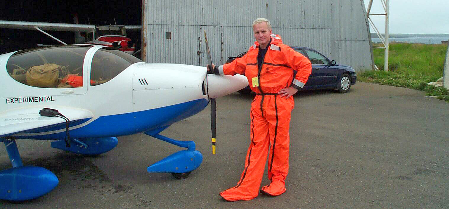 N81EU and pilot on the Orkney Islands prior to crossing the Atlantic Ocean